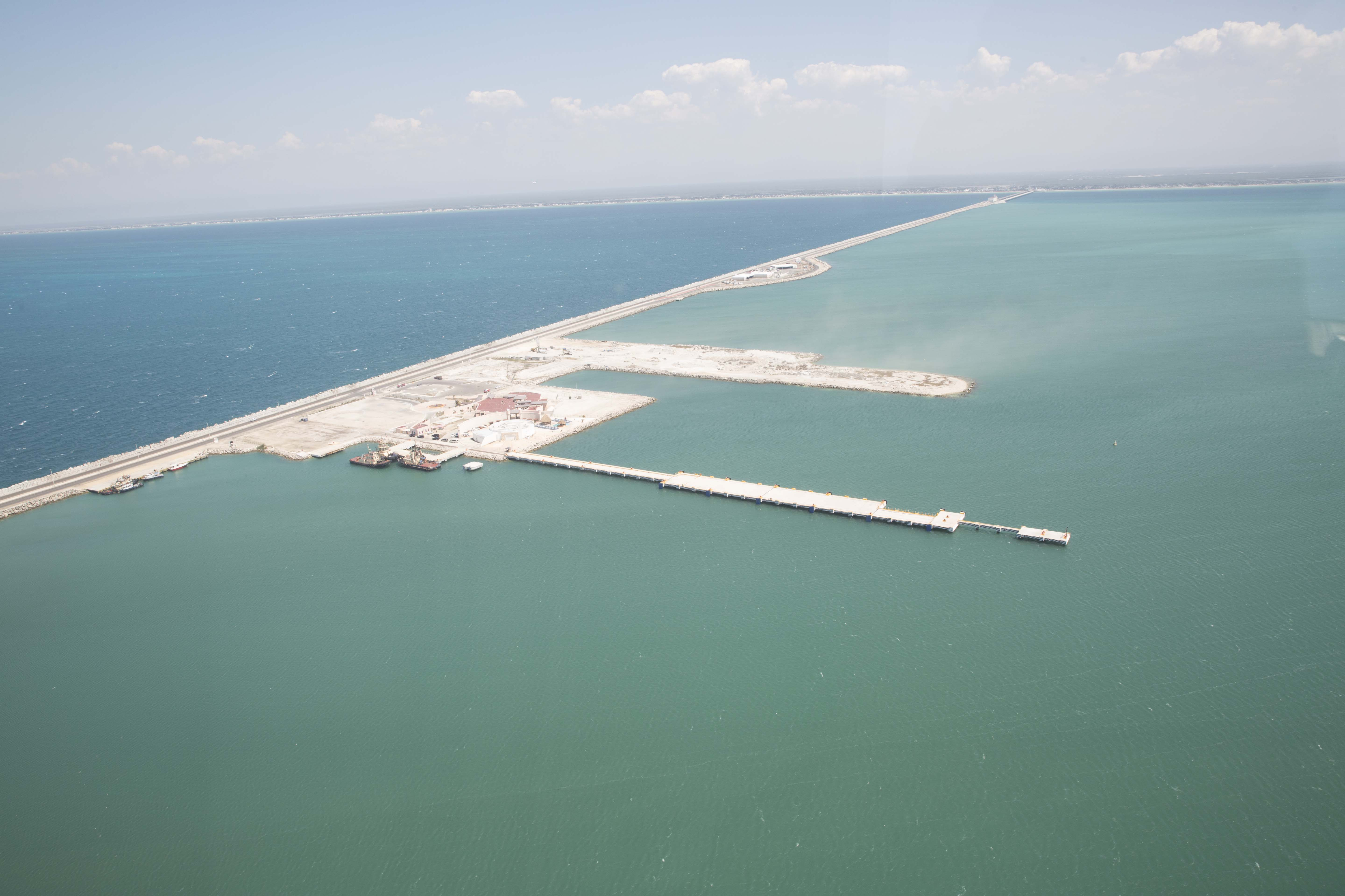 Sea port of the city of Progreso de Castro, municipality of Progreso, state of Yucatan, Mexico.